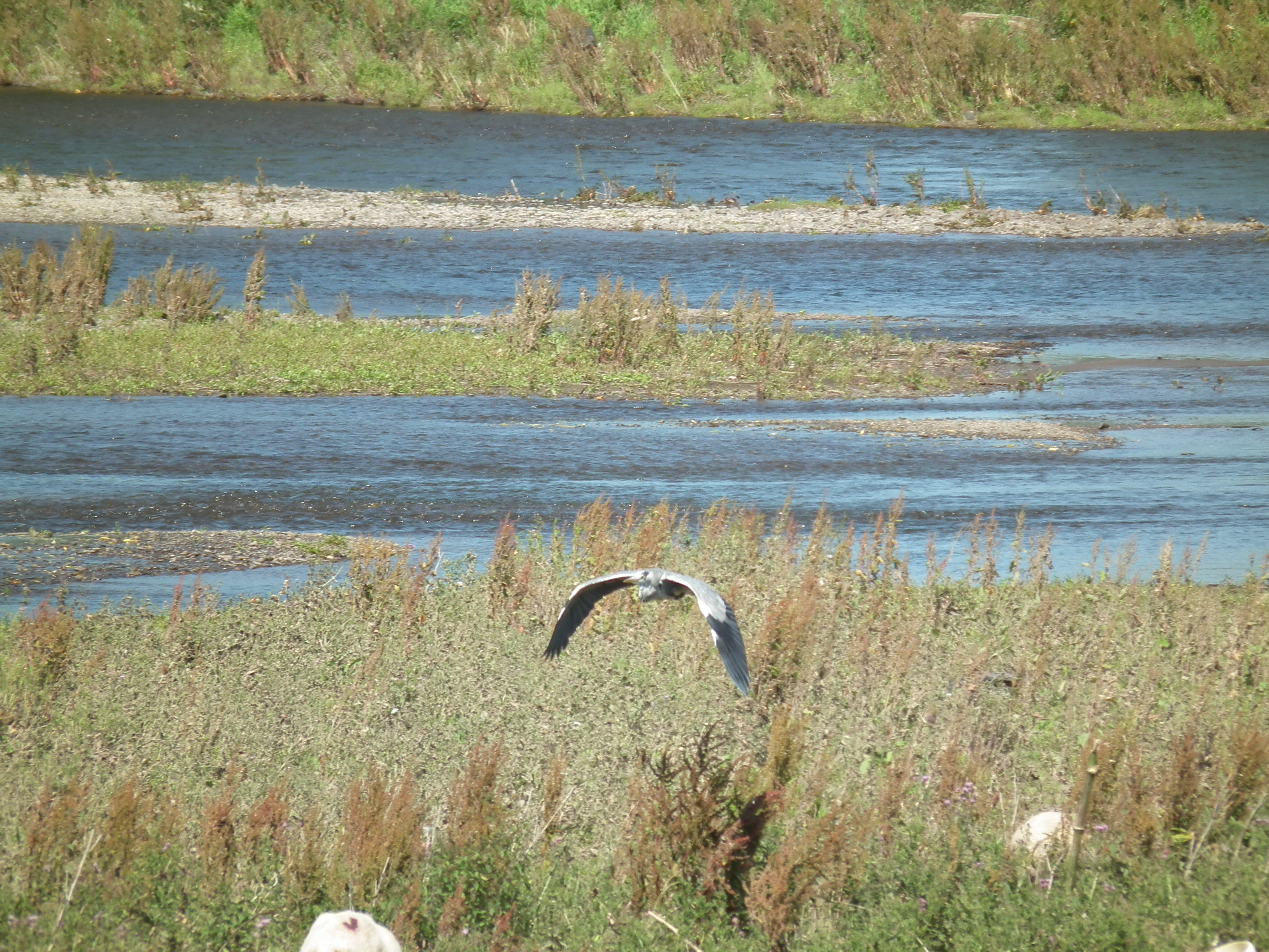 Blue heron flying over River Severn at Dolydd Hafren nature reserve, Powys, Wales